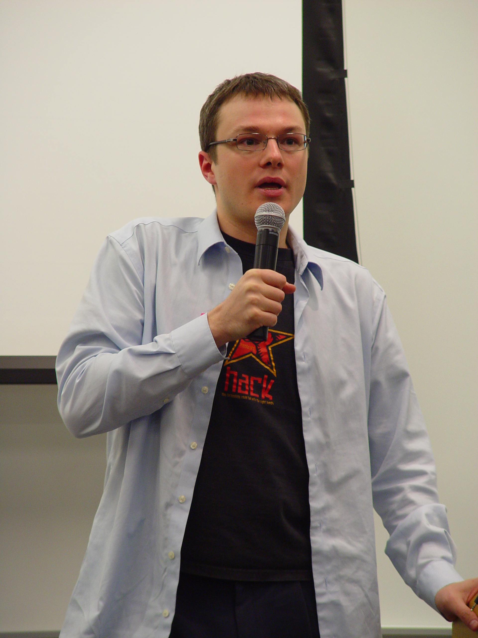 Mike Shaver, Director of Ecosystem Development at Mozilla Corporation